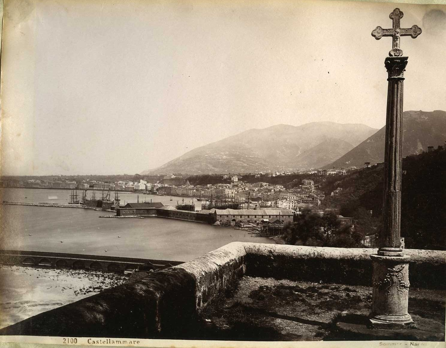 see title